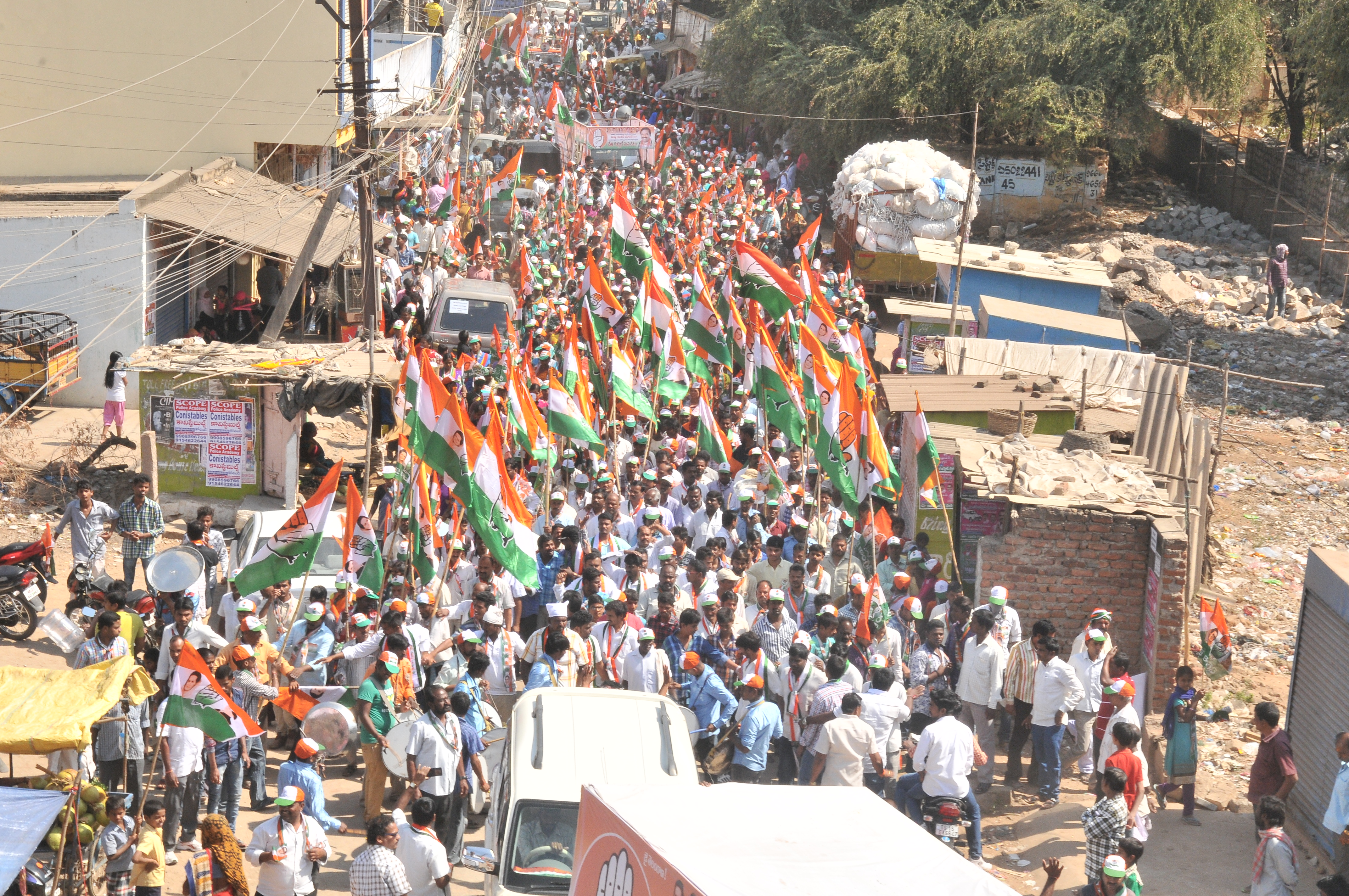 Photo During Nomination Rally Of M Shankar Yadav